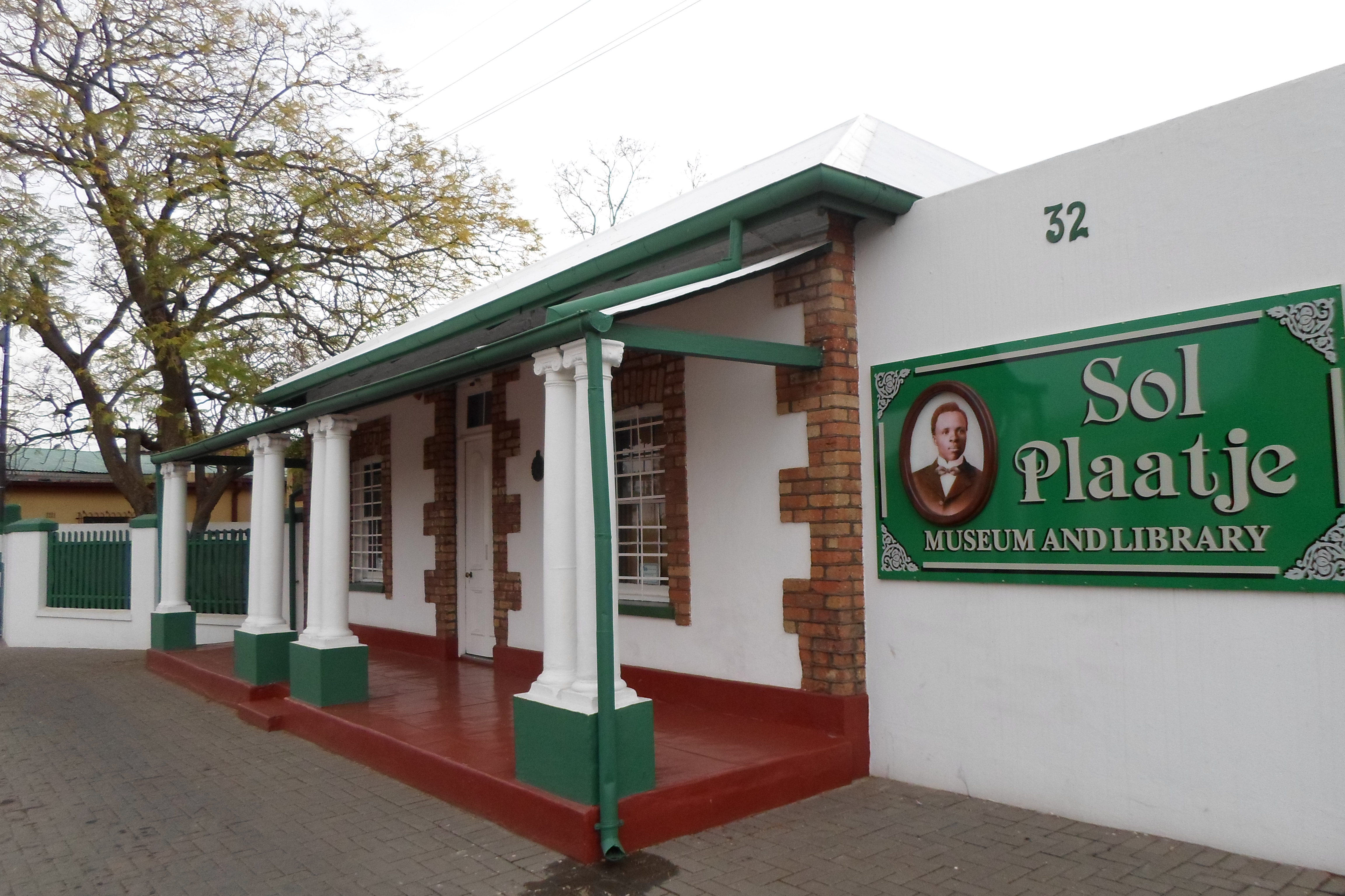 The Sol Plaatje Museum and Library in Kimberley named after Solomon Tshekisho Plaatje who was a South African intellectual, journalist, linguist, politician, translator and writer. Sol Plaatje was a founder member and first General Secretary of the South African Native National Congress now known as the African National Congress. The Sol Plaatje Local Municipality, which includes the city of Kimberley, is named after him, as is the Sol Plaatje University in that city, which opened its doors in 2014.